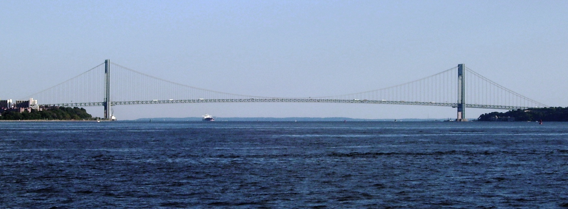 The Verrazano-Narrows Bridge as seen from the Staten Island Ferry in the Upper Bay of New York Harbor.